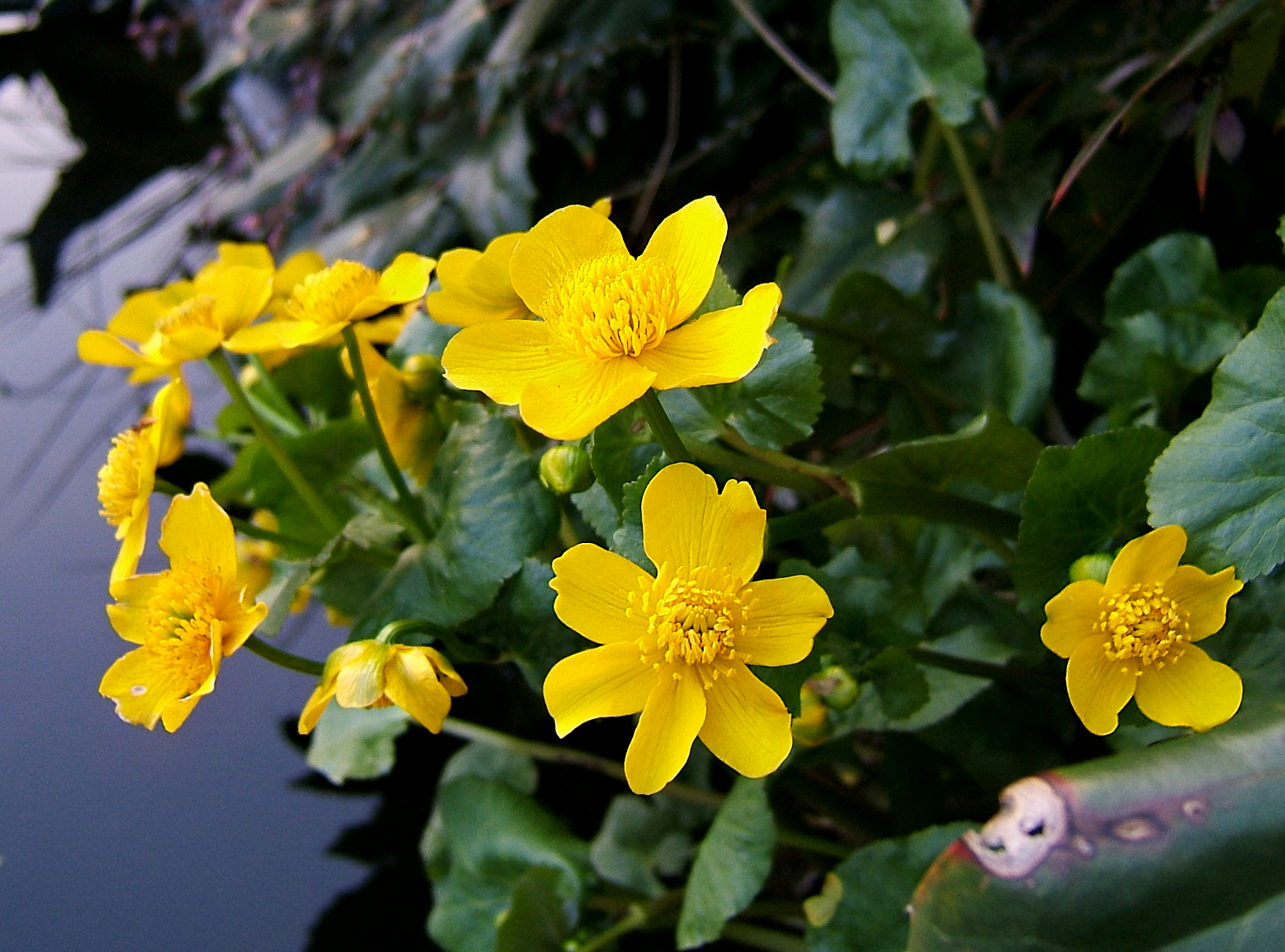 Caltha palustris